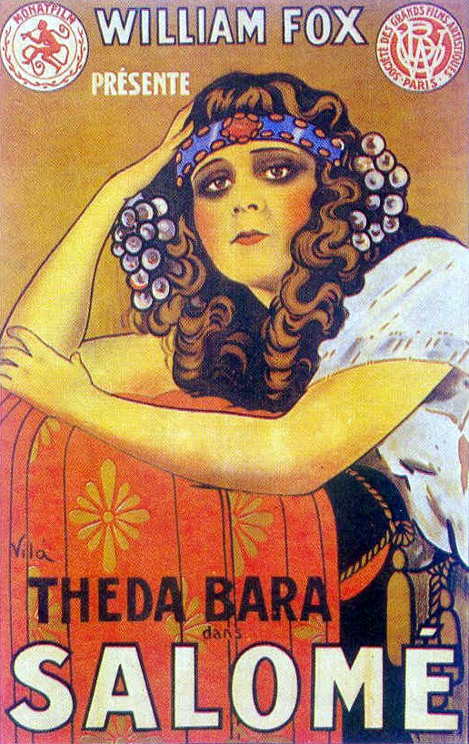 Poster of "Salome" (1918), lost movie with Theda Bara